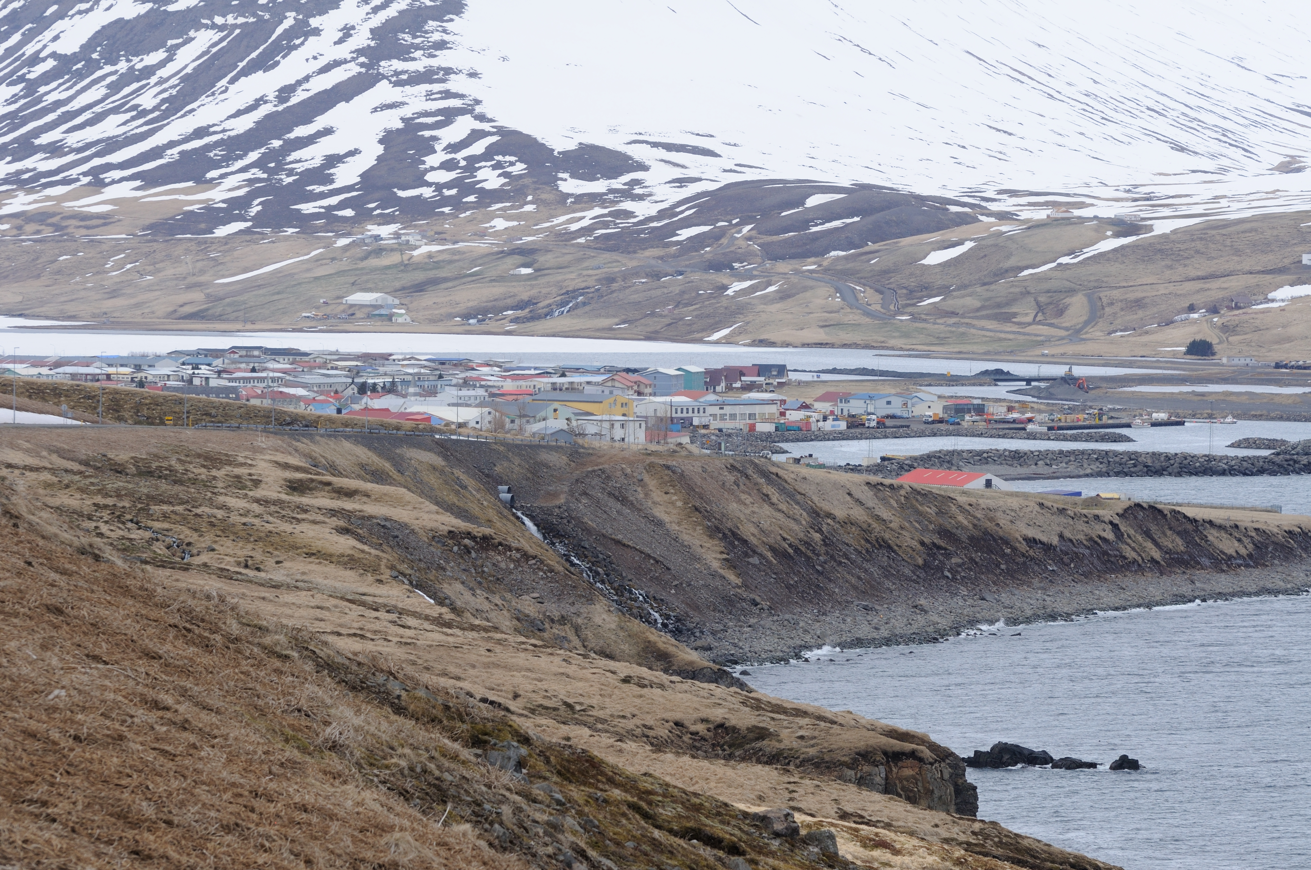 Iceland, impressions along road 82